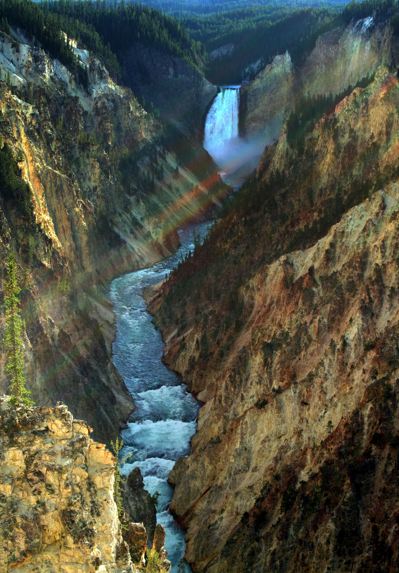 Lower Falls in the Grand Canyon of the Yellowstone, Yellowstone National Park, Wyoming, USA. Cropped and downsampled version.